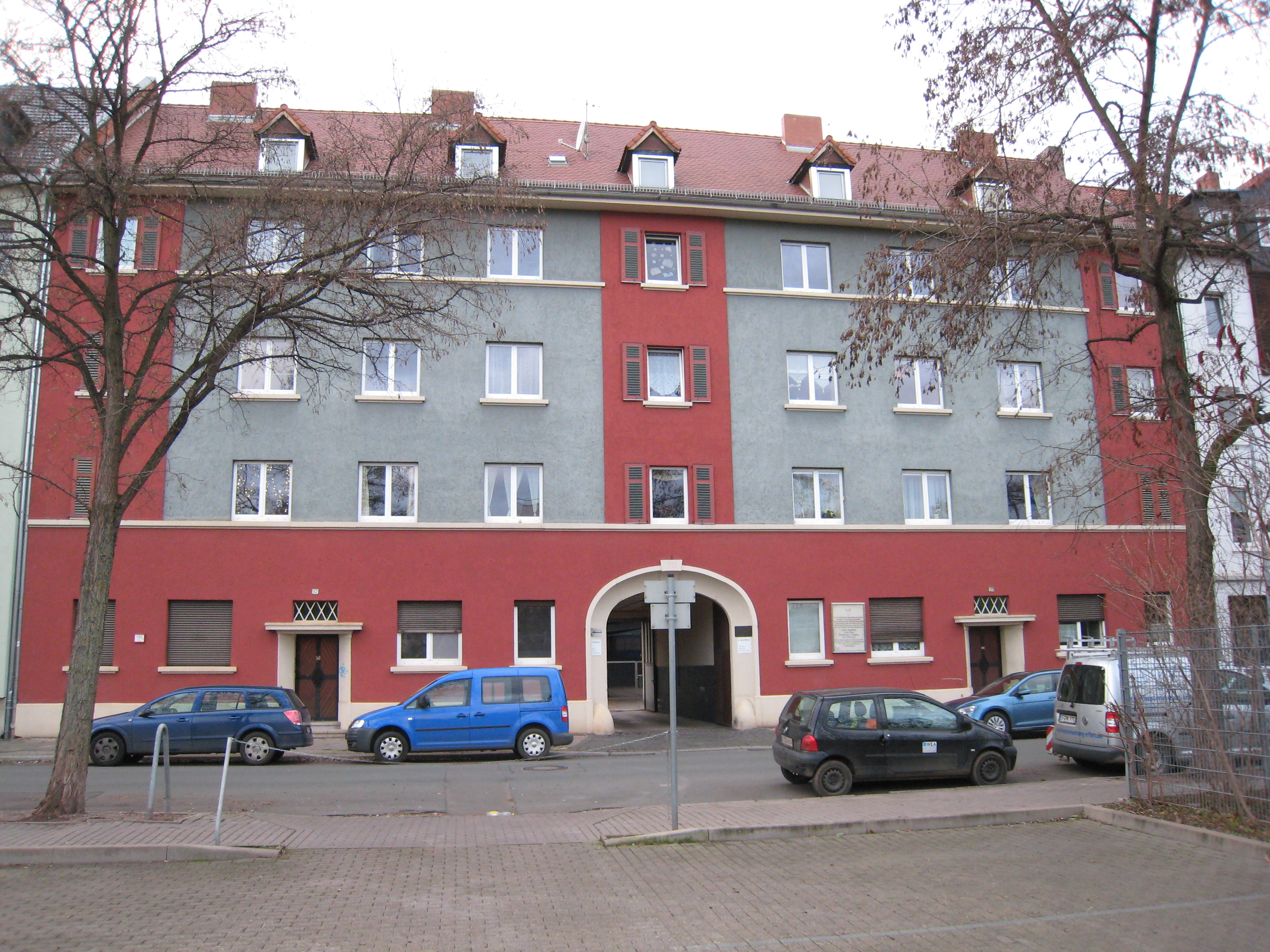 Former SA prison in Erfurt Feldstrasse 17 - 18